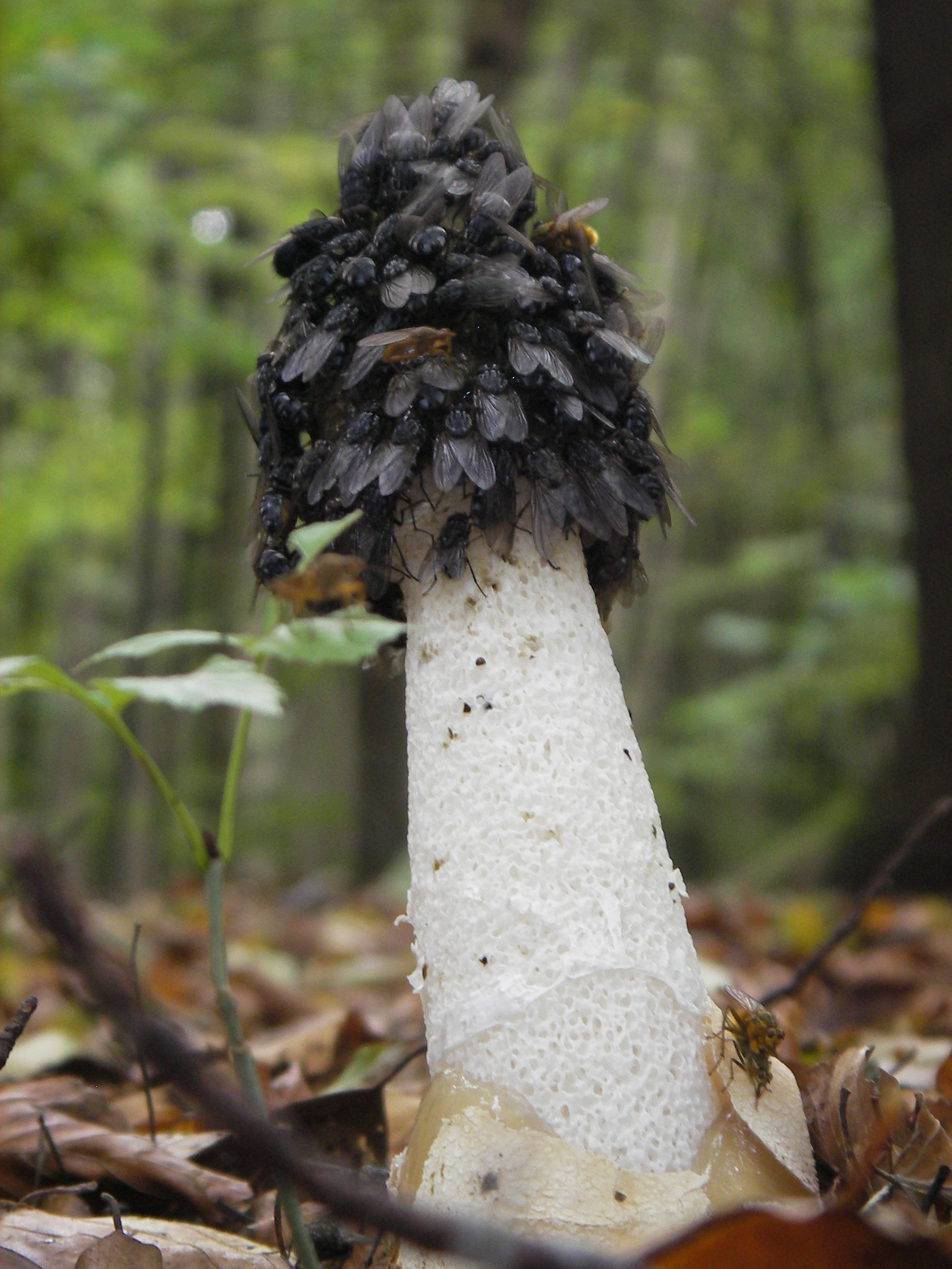 The making of this document was supported by the Community-Budget of Wikimedia Germany.